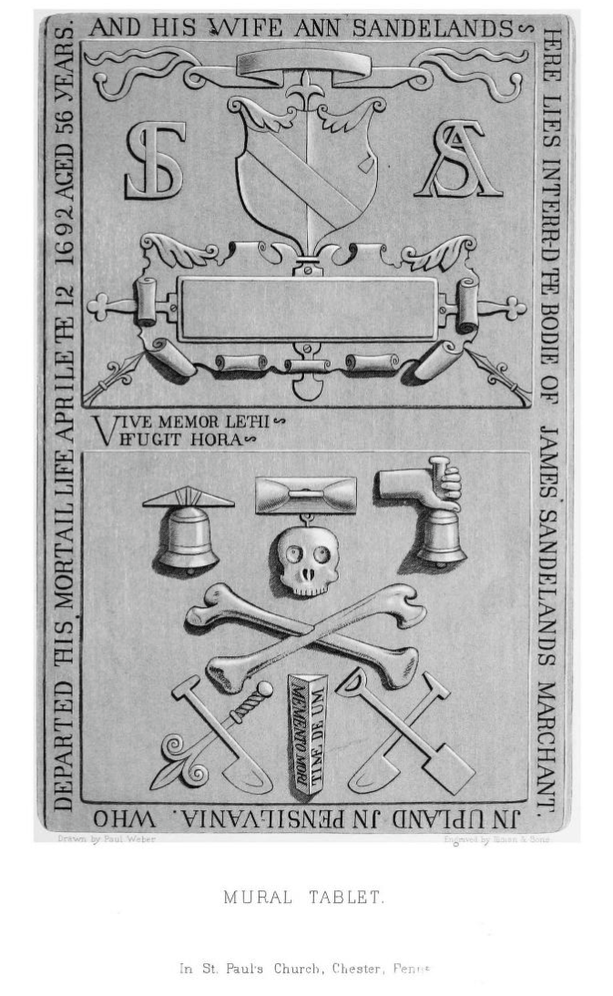 Funeral Headstone for James Sandilands, merchant in colonial Chester, Pennsylvania